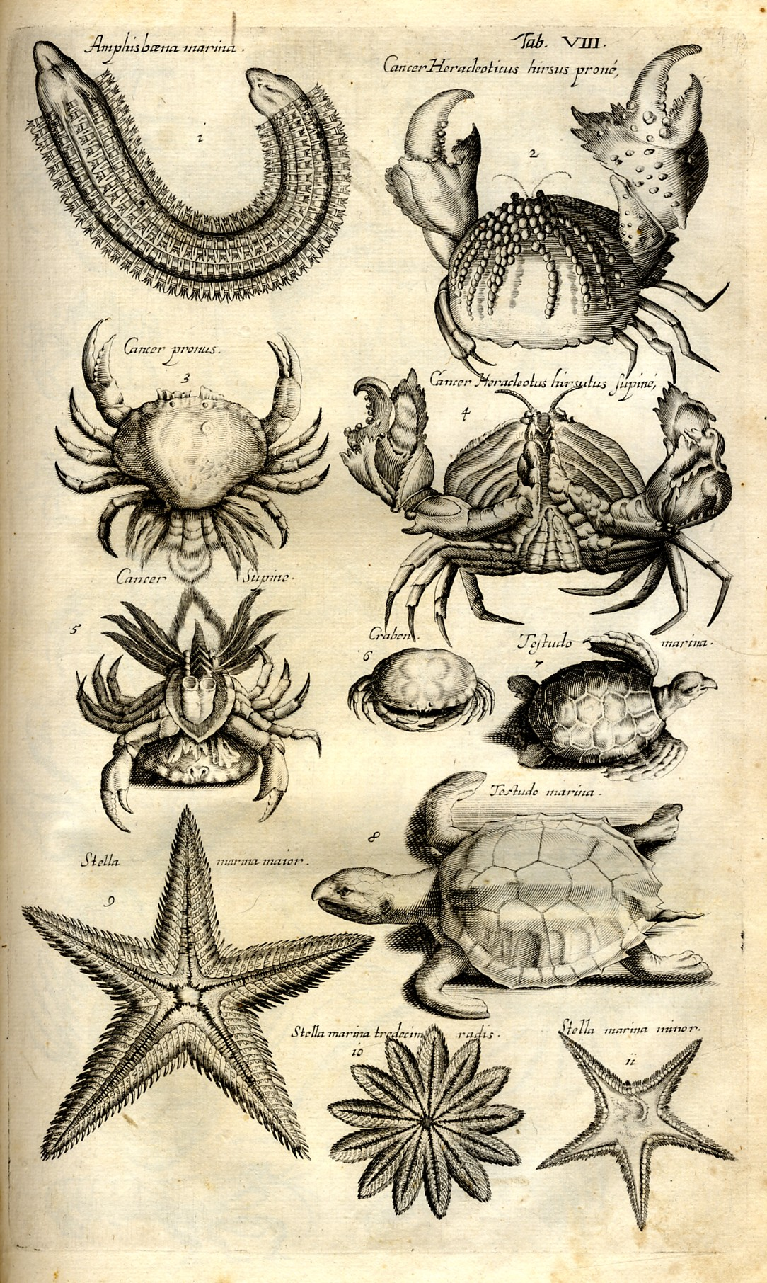 Illustration from "Historiae Naturalis De Exanguibus Aquaticis" by John Johnston. Sea animals.